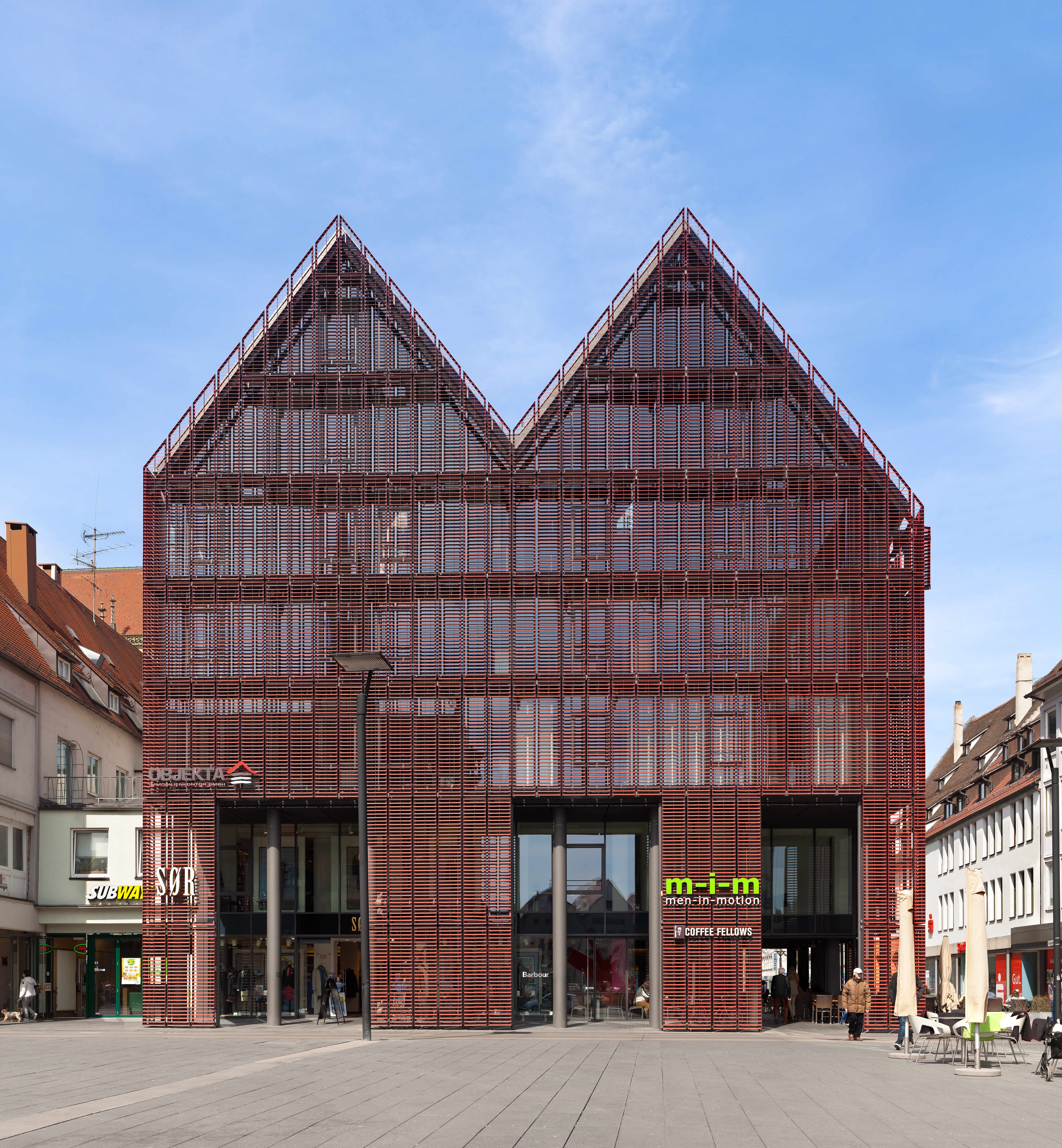 Museums society at Hans-und-Sophie-Scholl-square in Ulm.